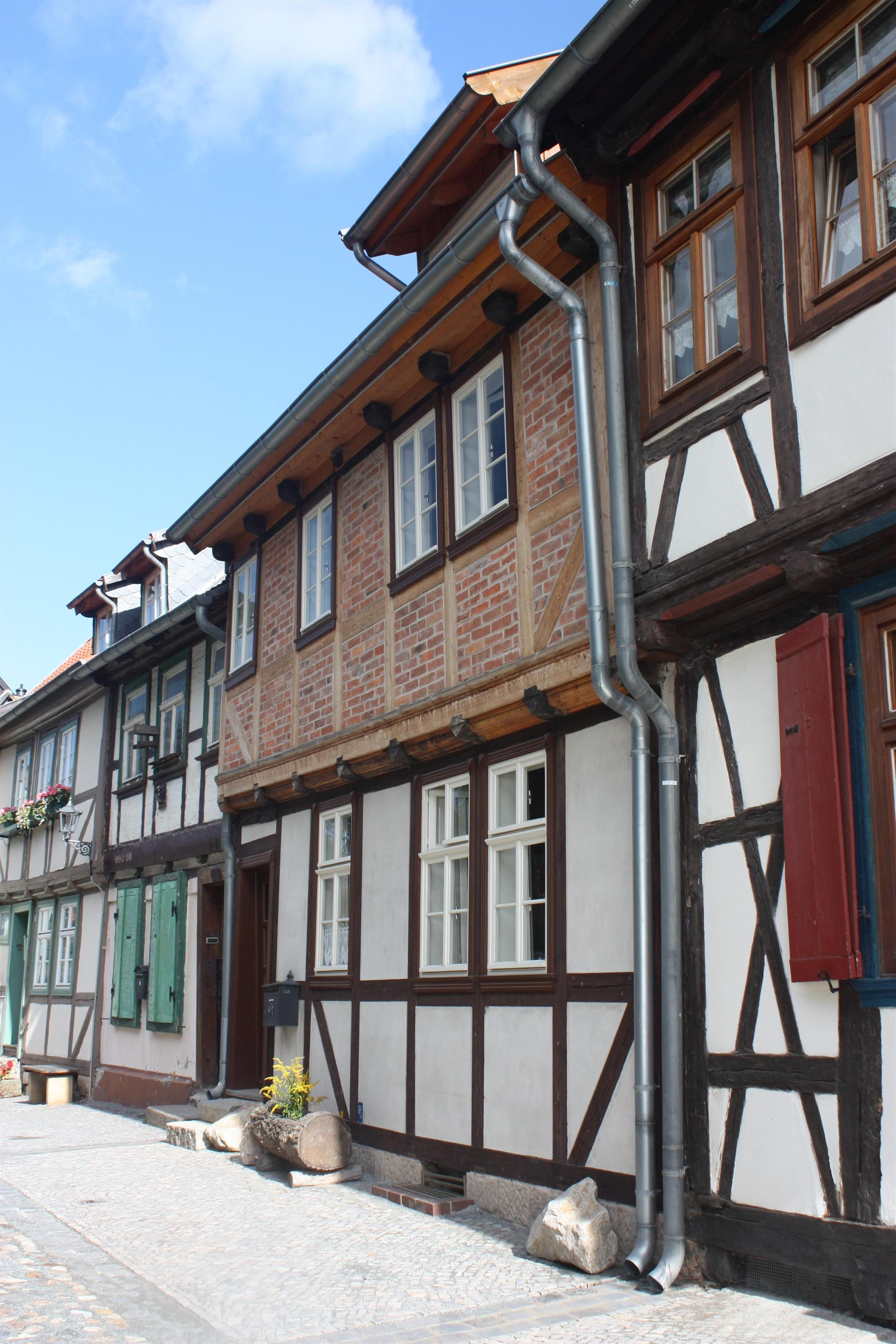 This is a photograph of an architectural monument.It is on the list of cultural monuments of Quedlinburg Quedlinburg Schloßberg